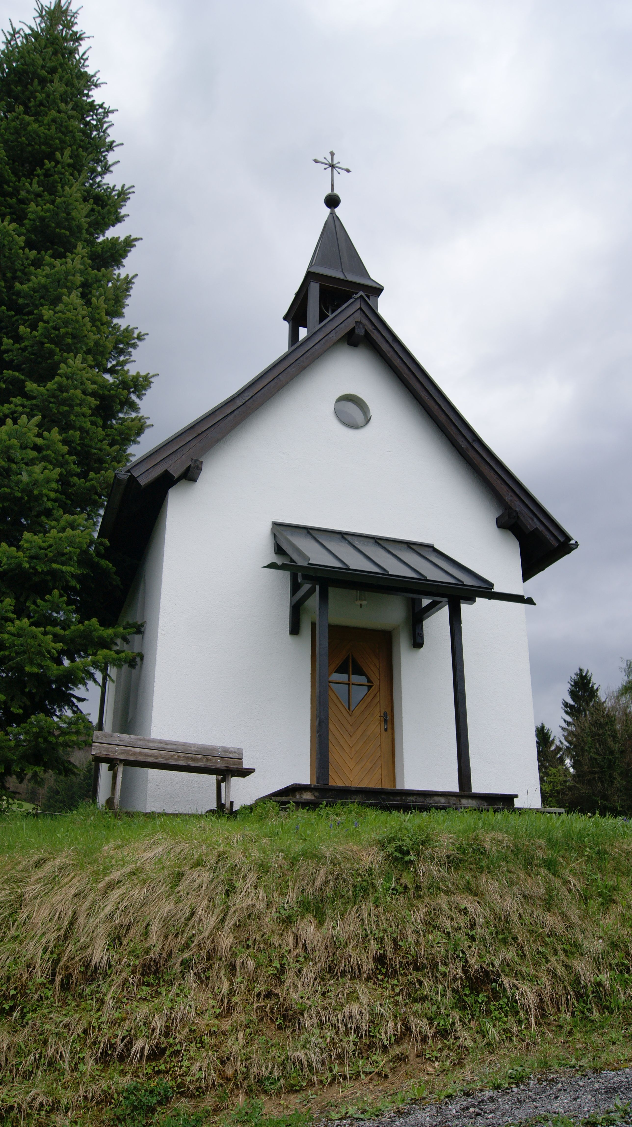 Chapel Linzenberg in Schwarzach in Vorarlberg, Austria.